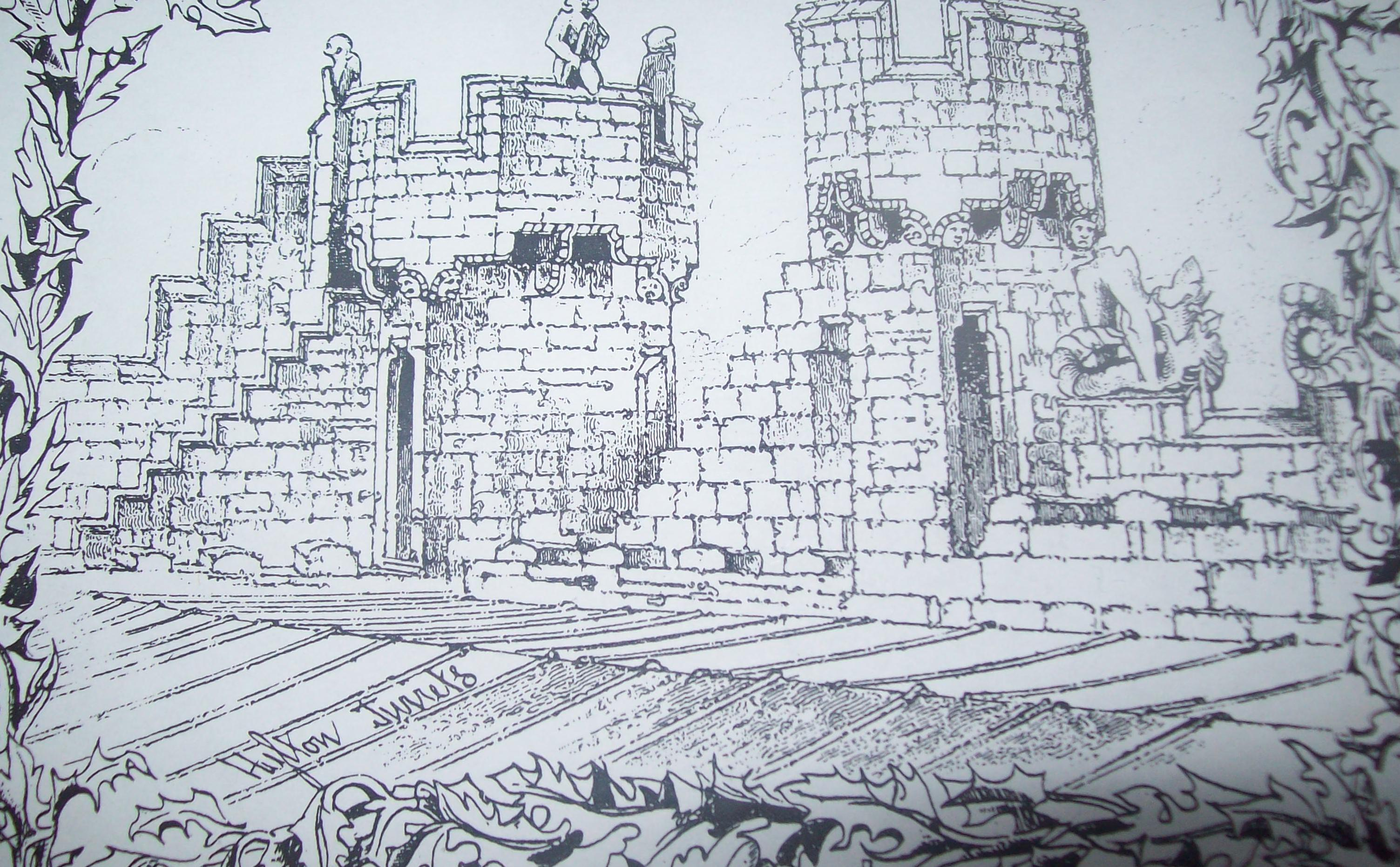 Rooftop of Hylton Castle